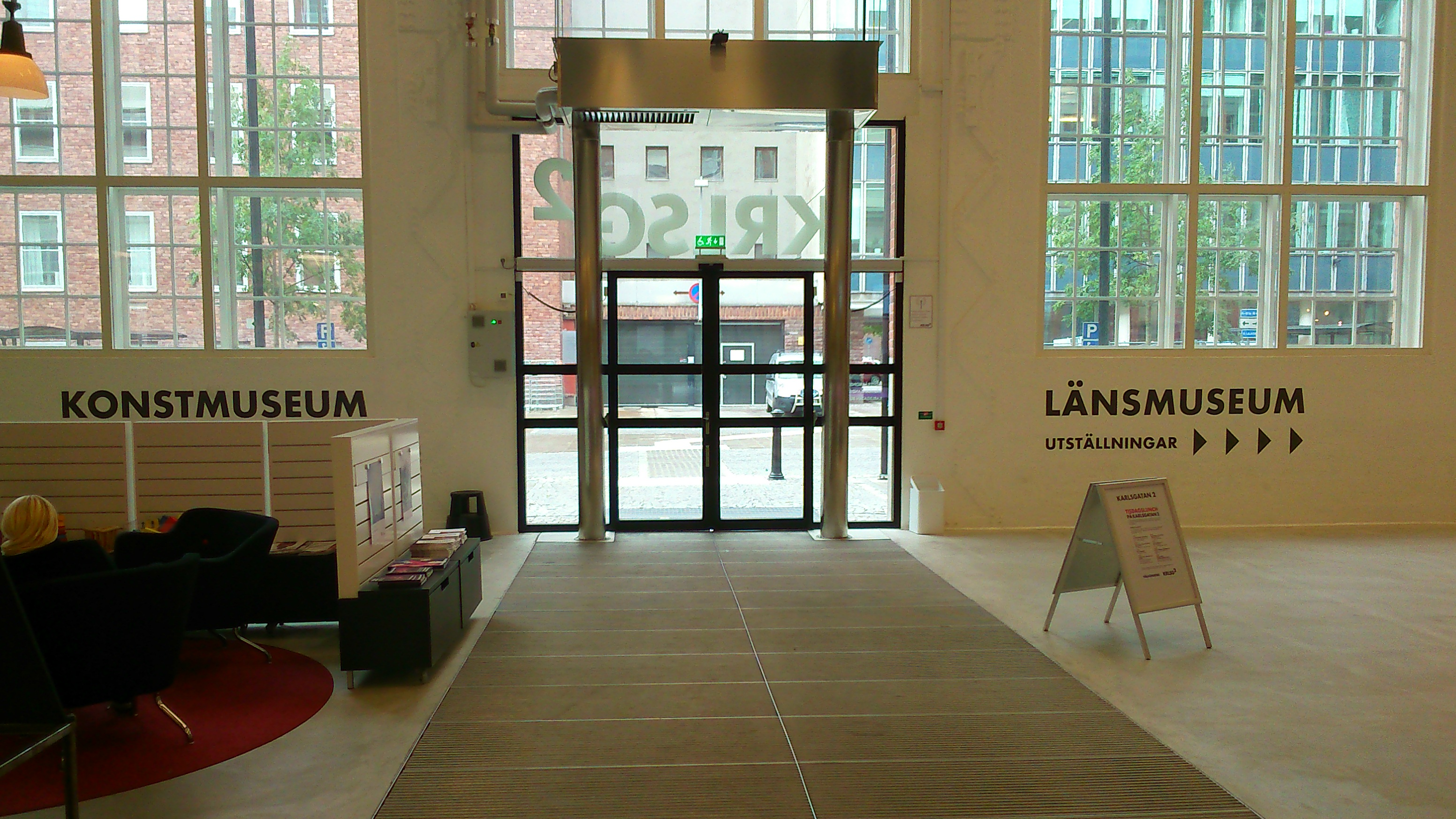 Västerås konstmuseum (Art museum) and Västmanlands läns (county) museum, Västerås, Sweden